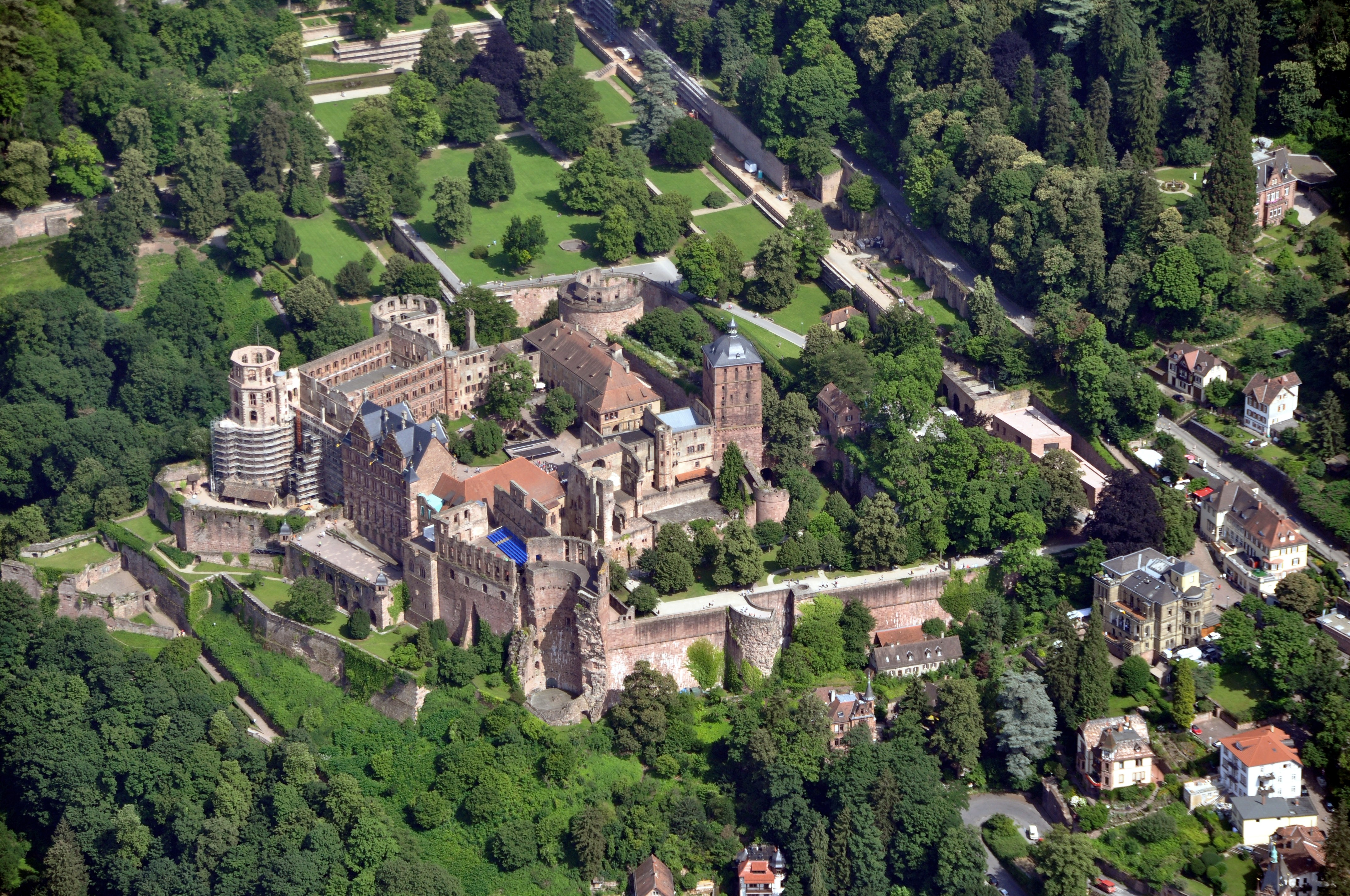 Aerial photograph of Heidelberg castle, Germany